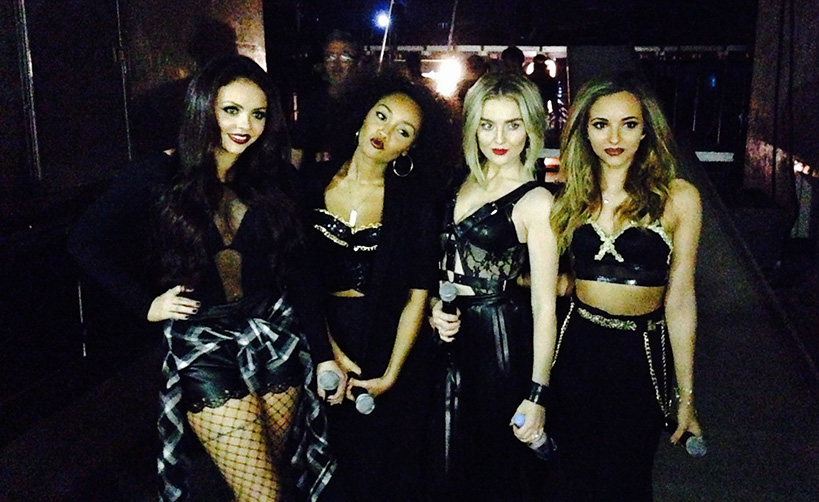 Little mix at Fashion Houston